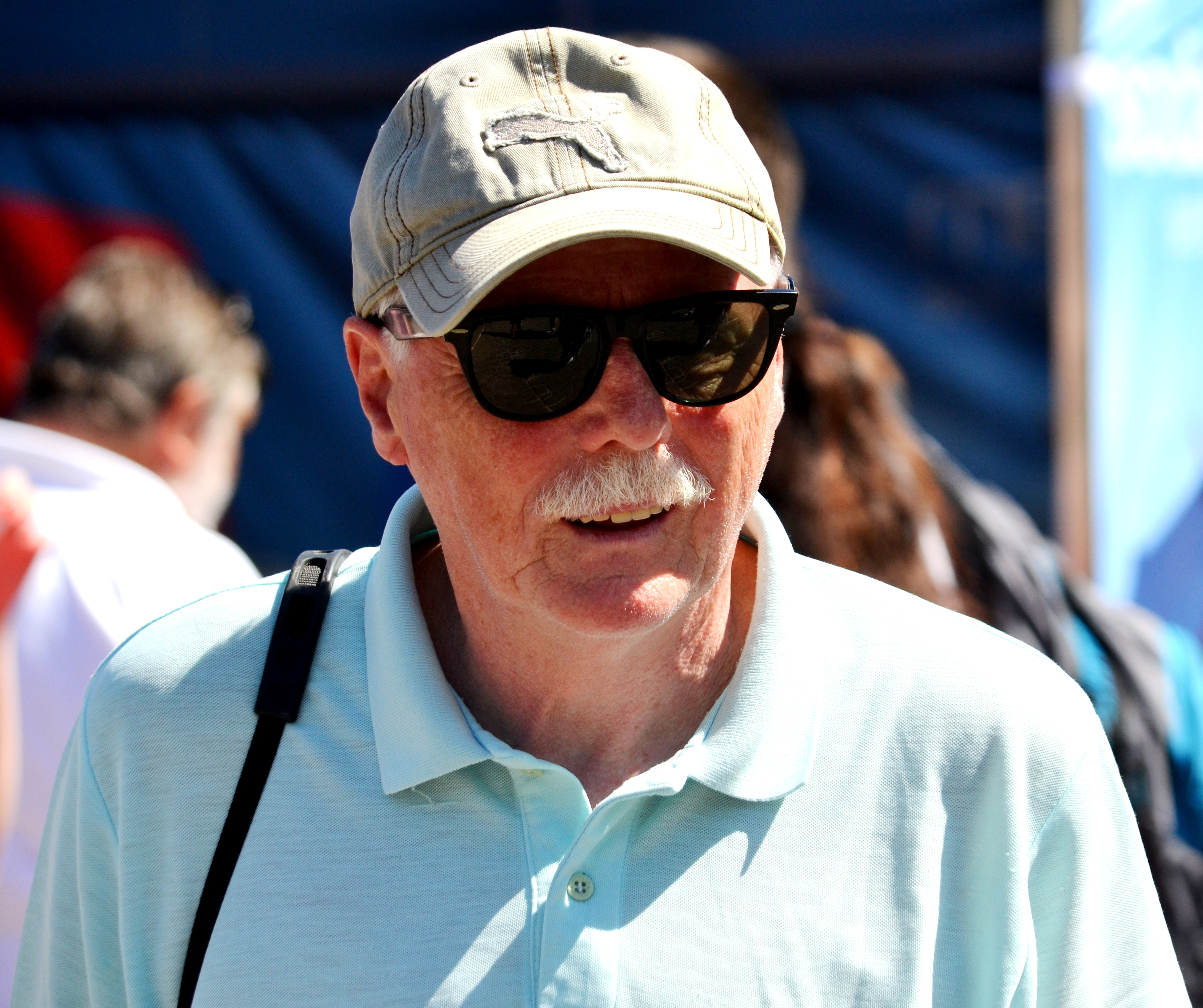 Petr Brukner, Czech actor